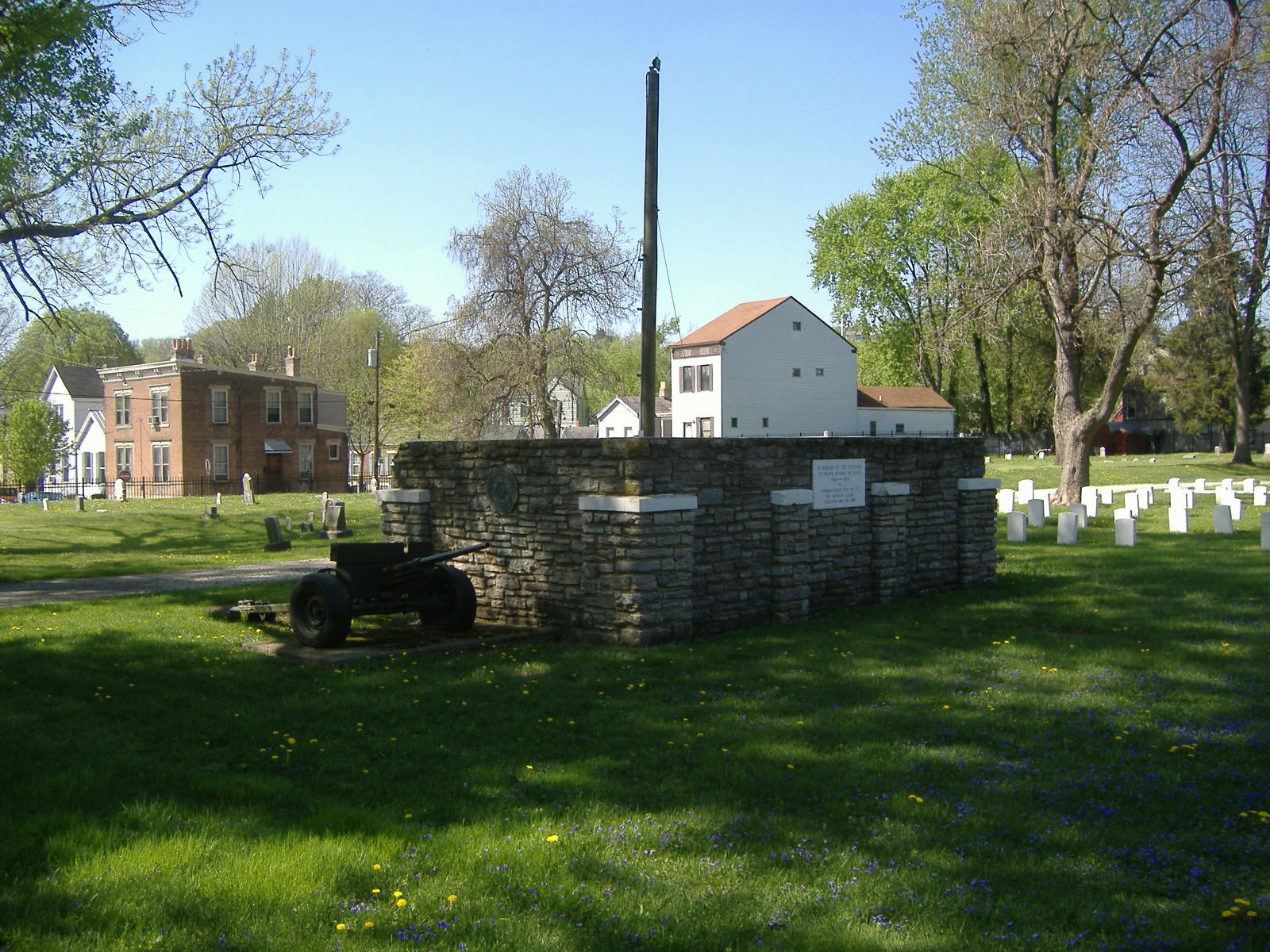 North side of Veteran's Monument in Covington (Covington)